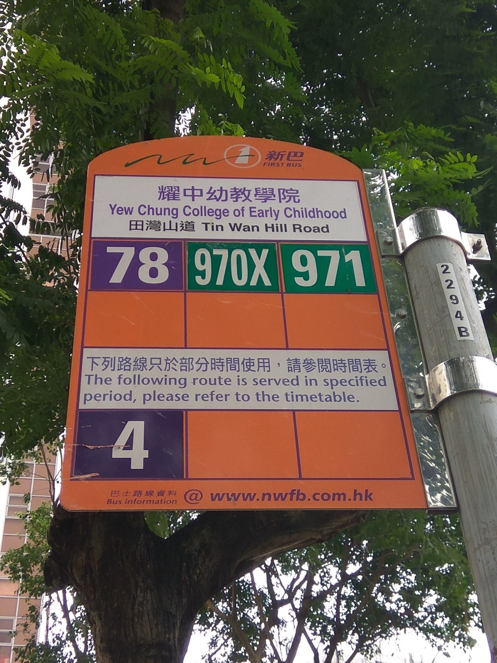 Bus Station of the Yew Chung College of Early Childhood Education.